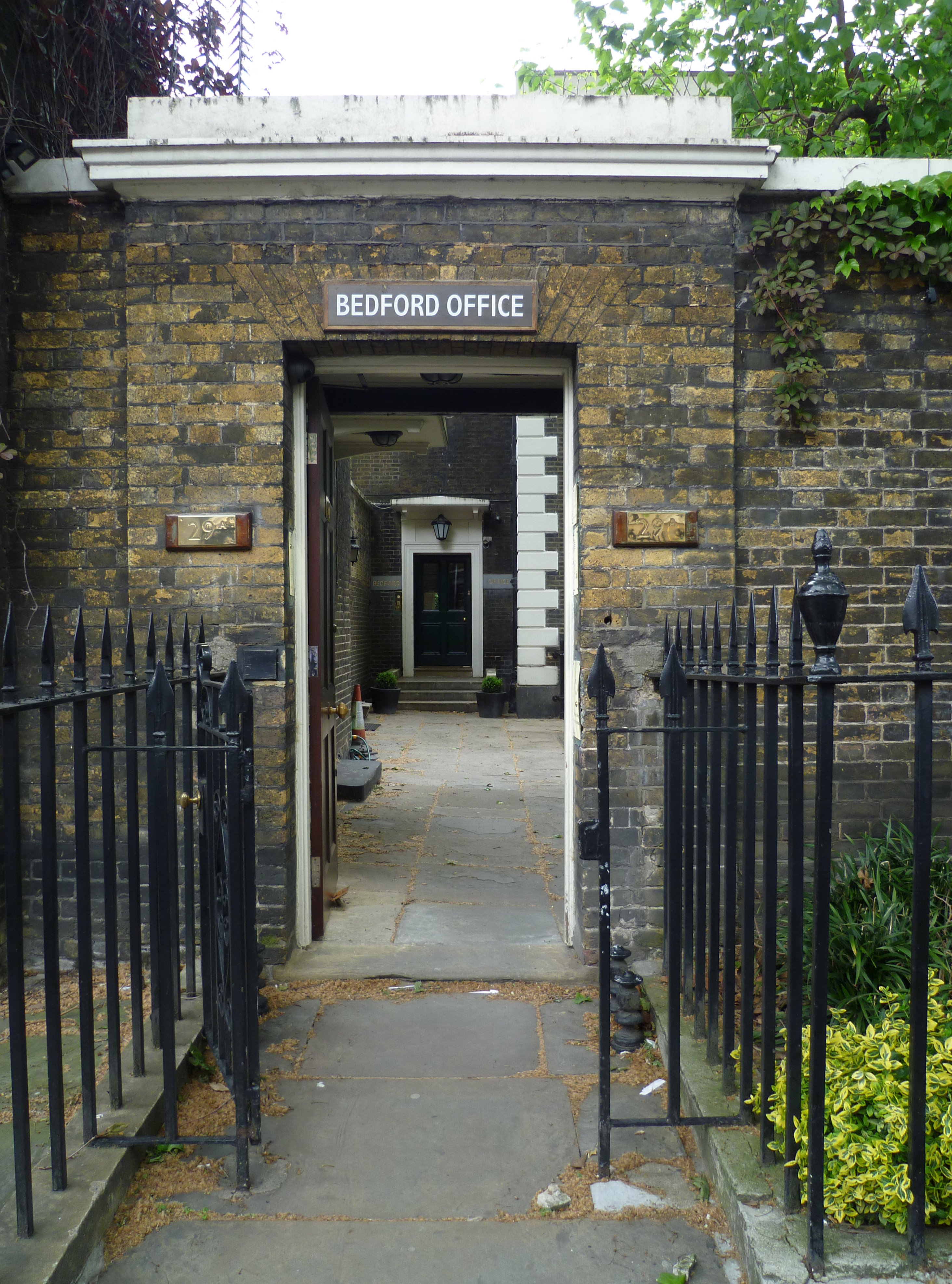 Bedford Estate offices